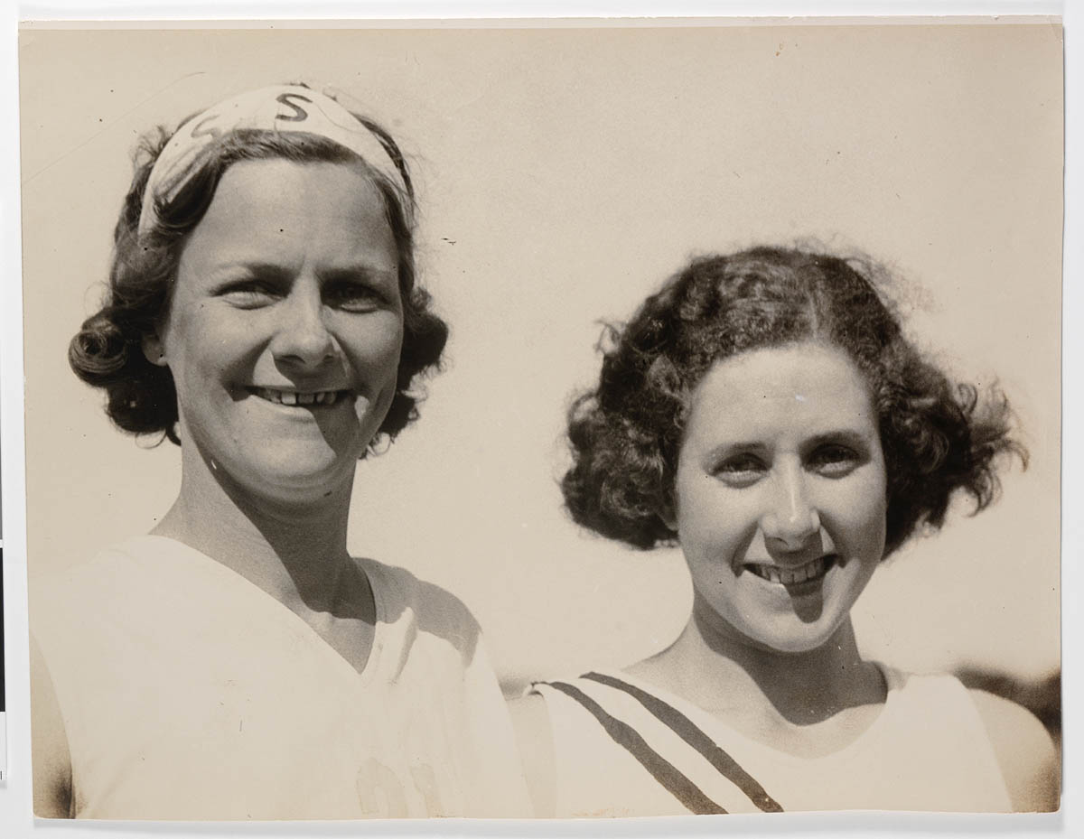 Australian athletes Eileen Wearne and Edith Robinson